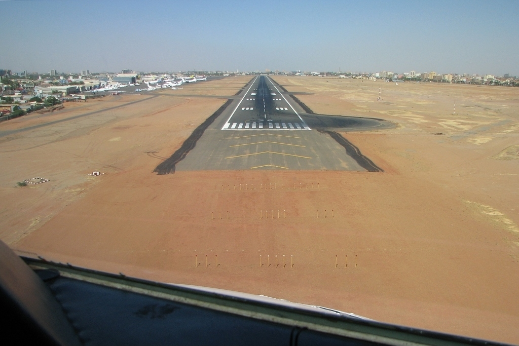 Khartoum International Airport